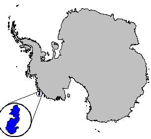 Siple Island in relation to Antarctica. Created and uploaded by Keith Edkins